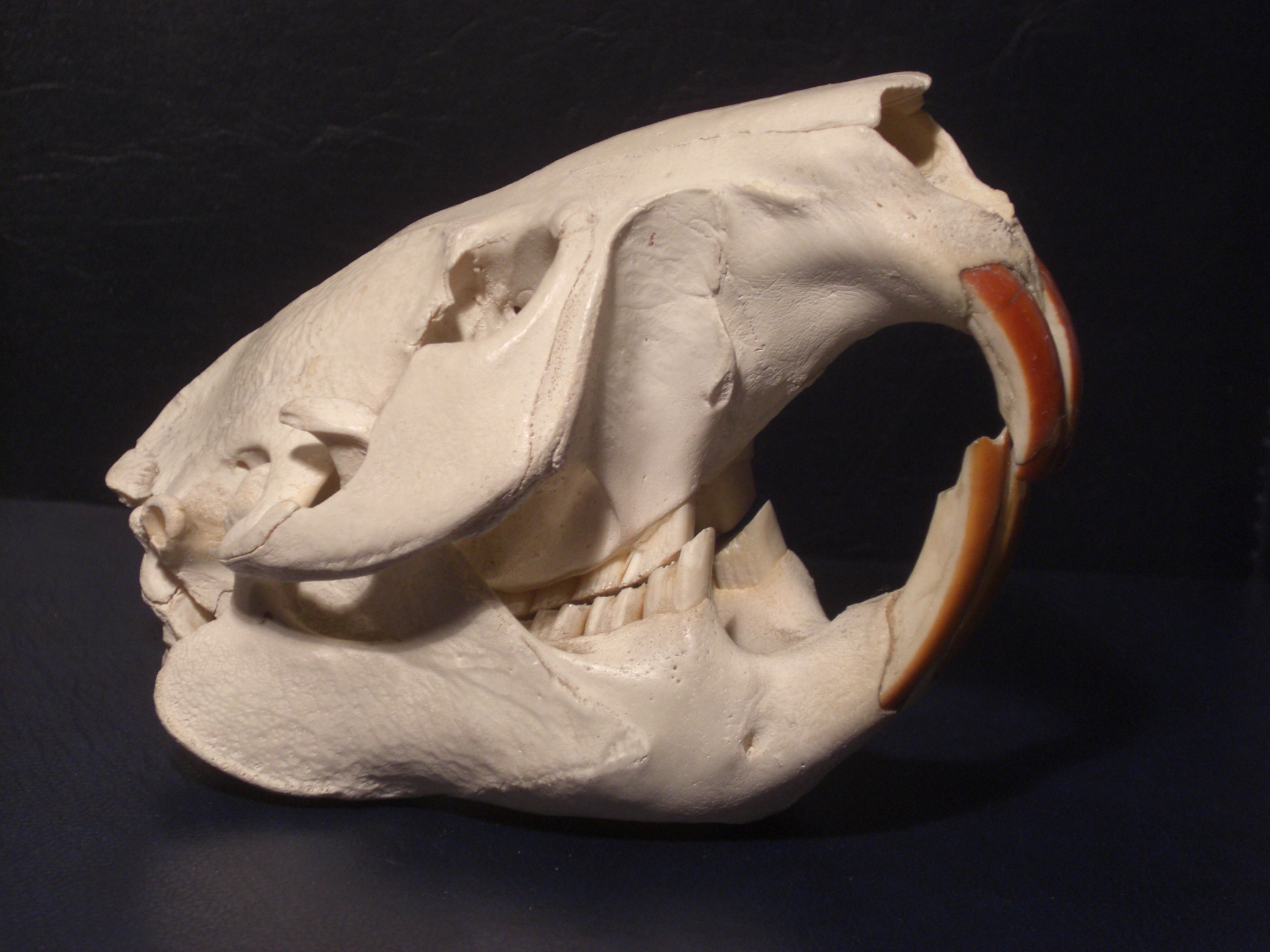 Skull of a beaver killed in Moscow Region, Russia